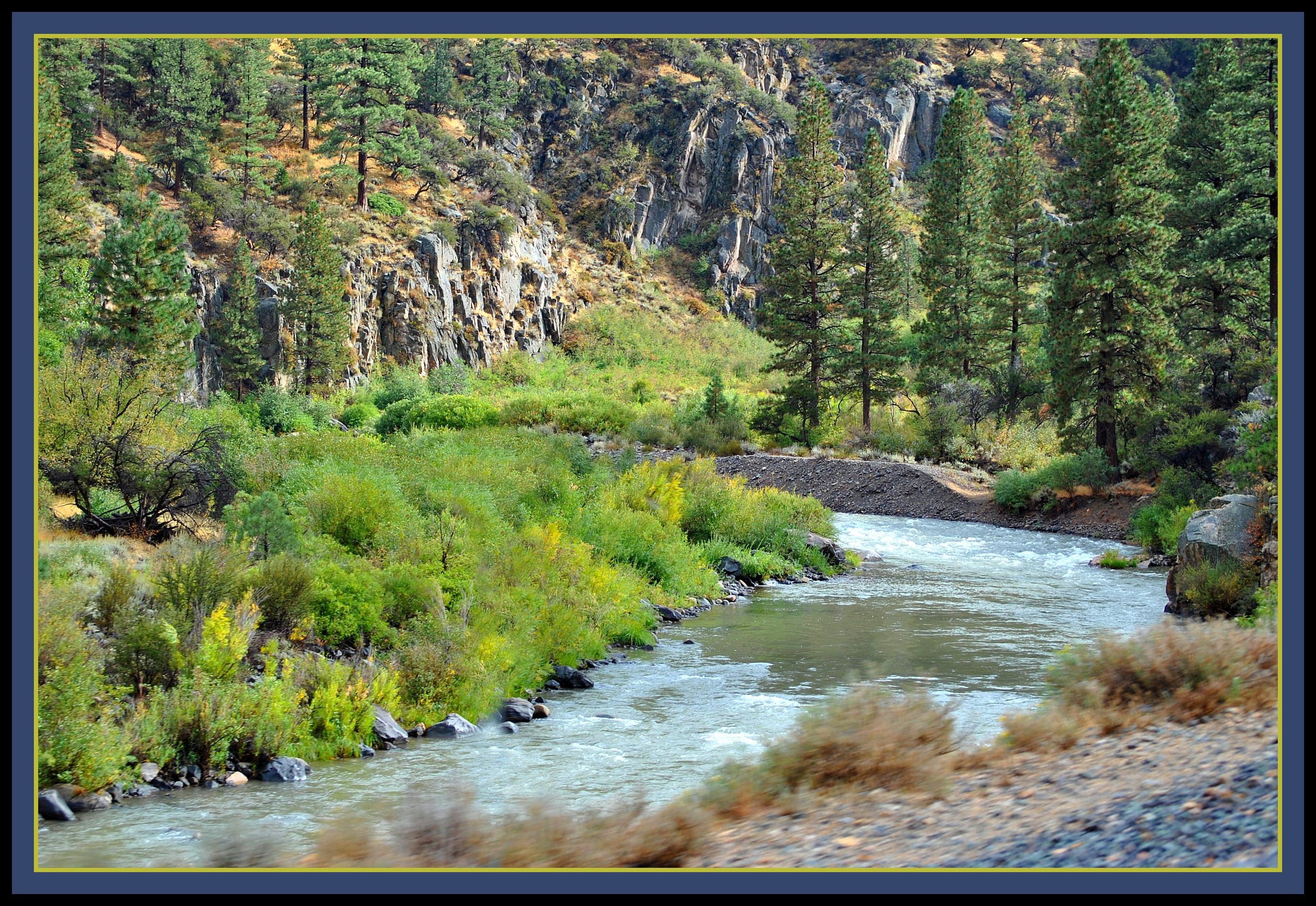 Floriston was first settled at the bottom of Bronco Creek as a railroad construction camp in 1867. It was later named Bronco, and also known as Wickes. The Wickes brothers operated a wood cutting business up Bronco Creek in the 1870's and 1880's. In 1891 the Floriston Ice Company built an ice pond and icehouse in the area. Two small sawmills were built up Bronco Creek about that time. In 1900 the Floriston Pulp and Paper Mill was built where Interstate 80 now passes across the river from the town of Floriston . The existing town of Floriston was a company built and operated town, with most of houses constructed in 1900. The paper company operated its own flumes, an aerial tramway in Coldstream Valley , and its own railroad up Alder Creek and into Euer Valley in the late 1920's. Due the acid pollution that the paper dumped into the river for 30 years, the paper mill closed in 1930. A Clamper's plaque is dedicated to this still visible landmark town. More..